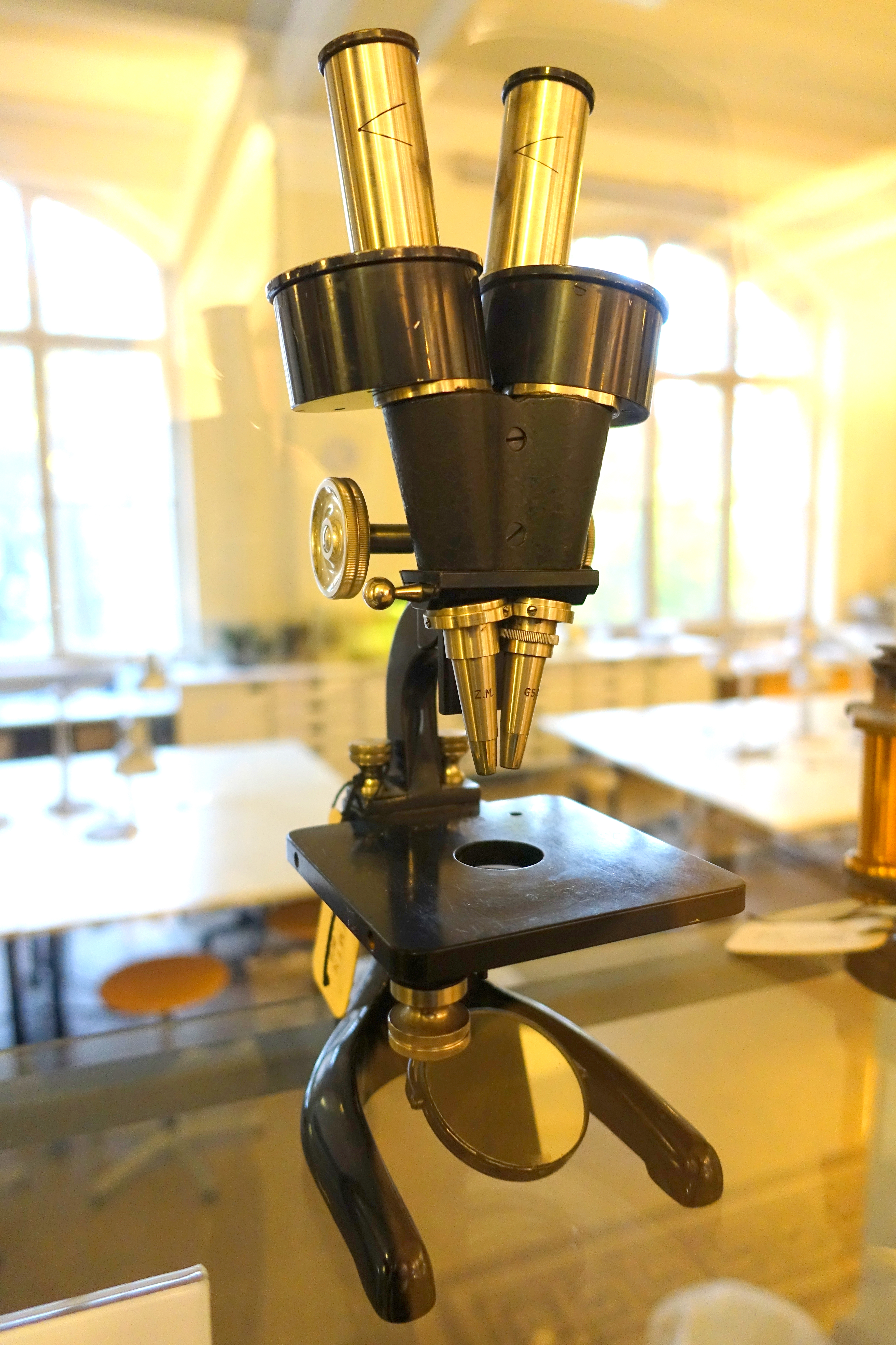 Exhibit in Museum für Naturkunde, Berlin, Germany.